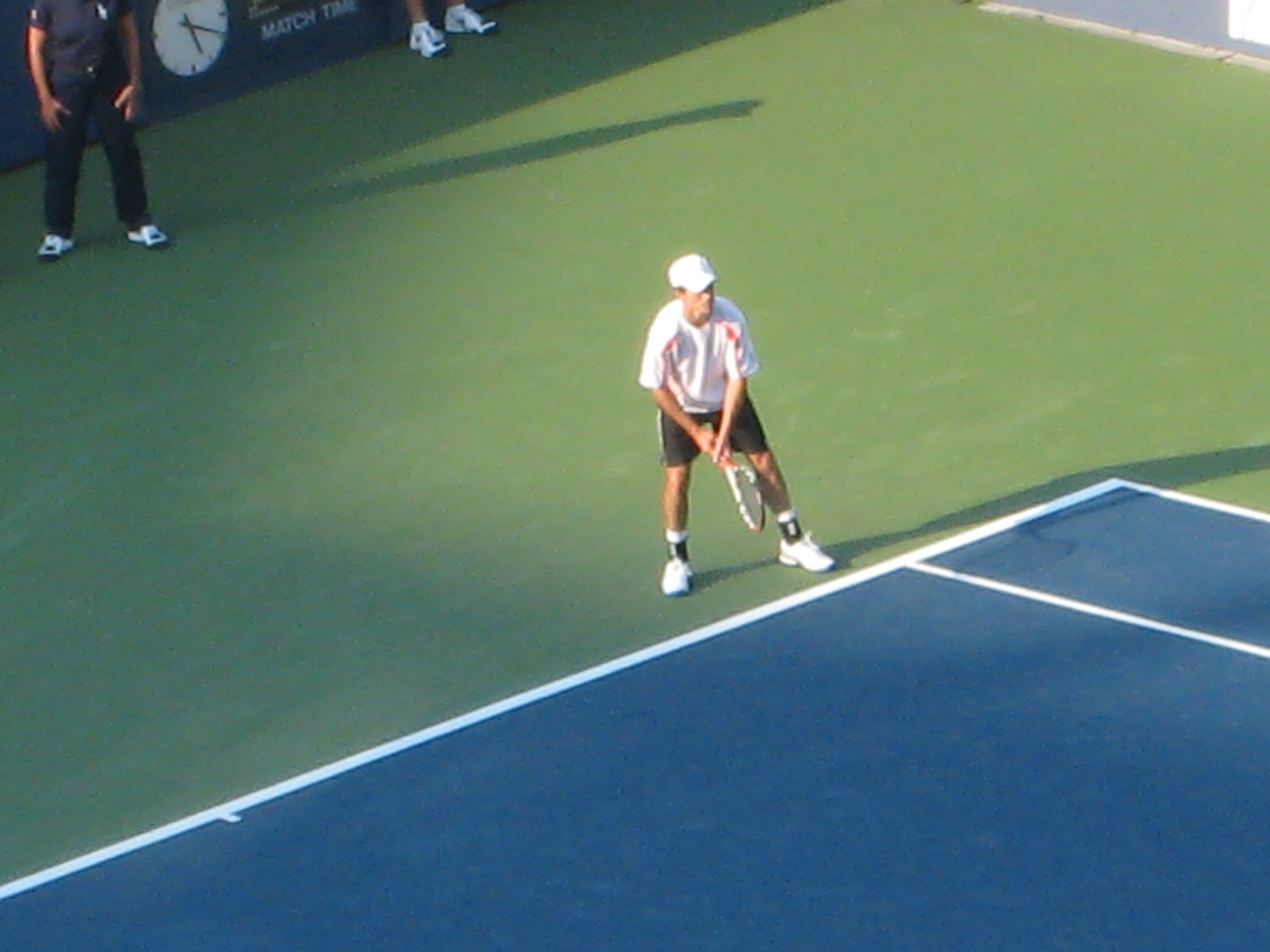 Alun Jones against Rafael Nadal at the 2007 U.S. Open[1].